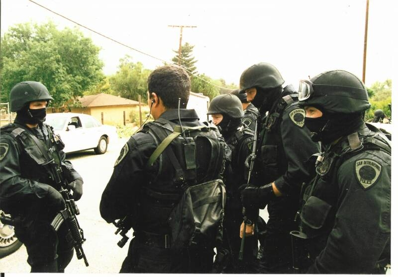 San Bernardino police SWAT team confer before Sergeant Ernest Lemos shot officer Stephen Peach